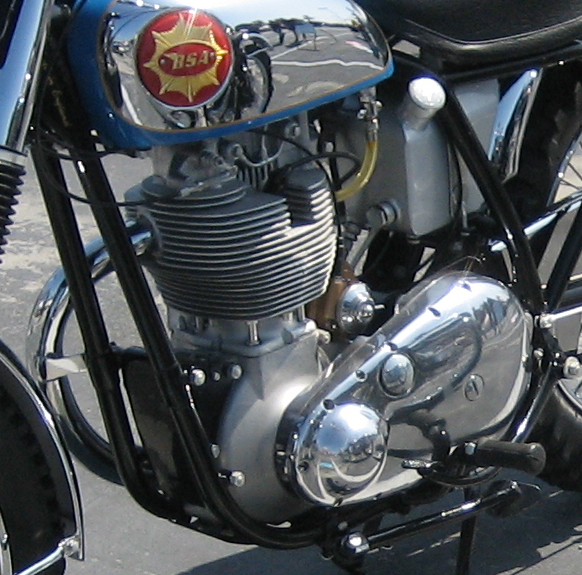 1960 BSA Gold Star engine